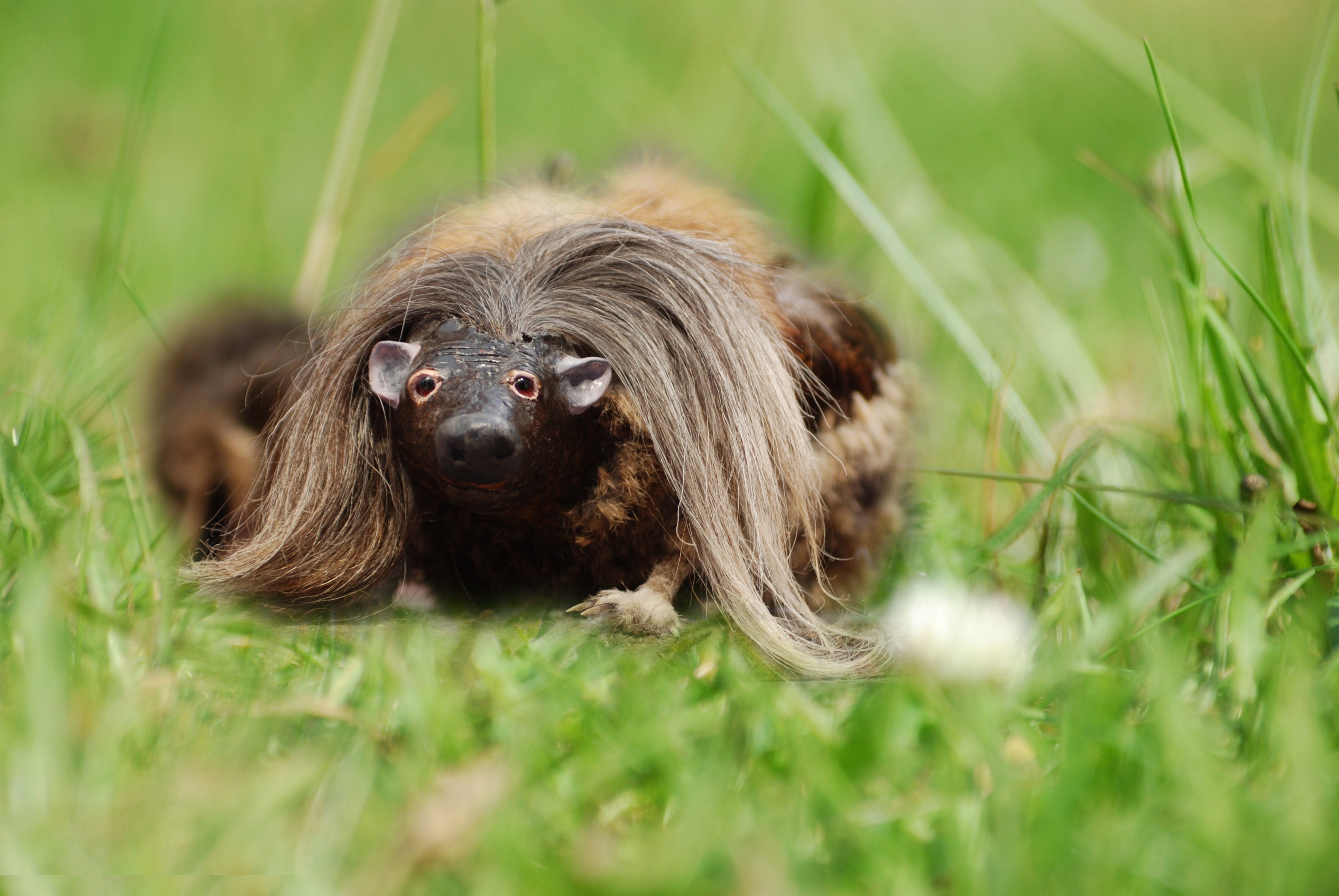 A fictional Wild Haggis (mixed picture, Haggis taken in Kelvingrove Gallery and gras taken near Loch Lomond)